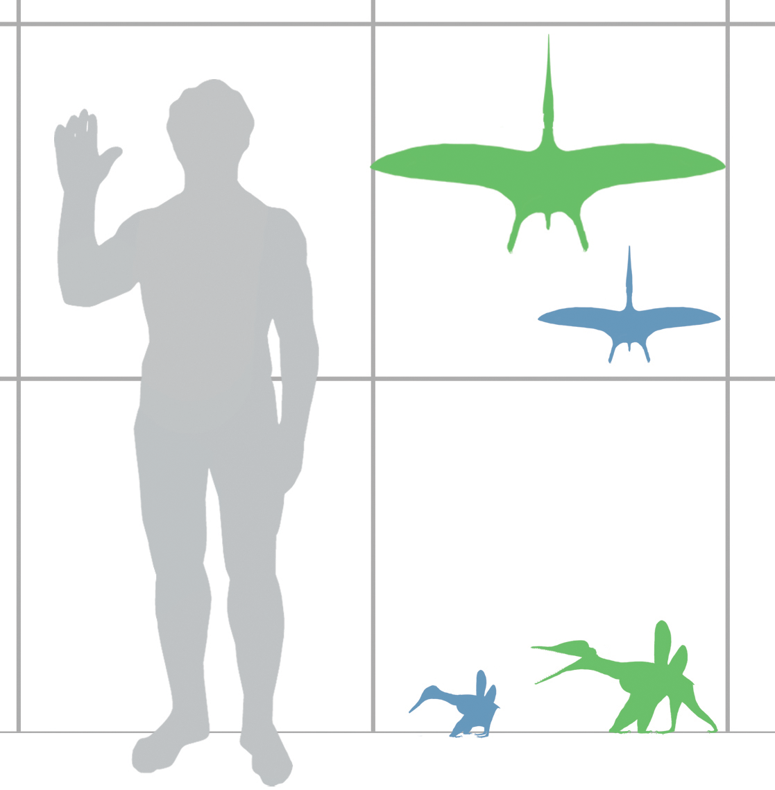 Size of the first known pterosaur Pterodactylus antiquus (flying and walking positions) compared with a human. Blue = subadult holotype specimen, green = estimated size of mature skull specimen BMMS 7 (sizes after Bennett, 2013). Grid section = 1 square meter. Template:Cite doi